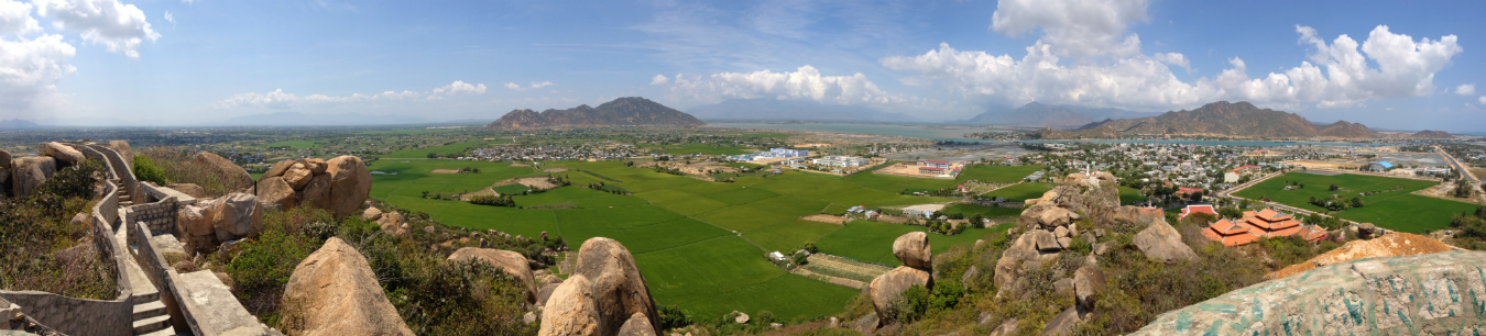 Phang Rang, Vietnam